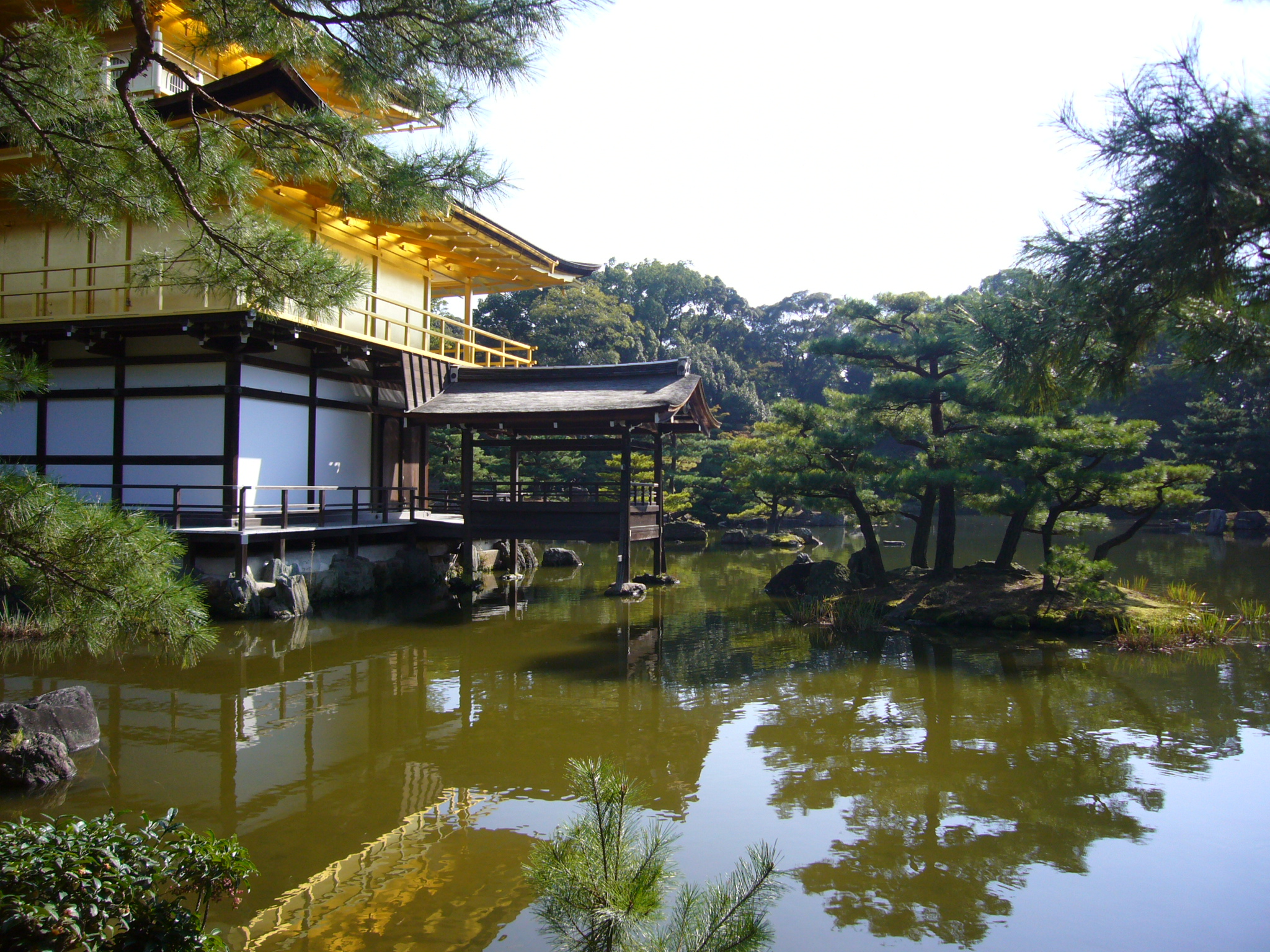 Historic Monuments of Ancient Kyoto (Kyoto, Uji and Otsu Cities) (Japan)